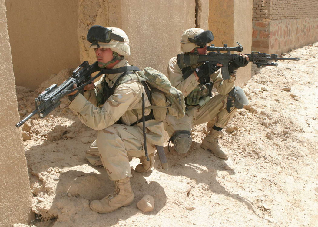 Cpl. Thomas Sellers, left, and Cpl. Jonathan Malmind keep a wary eye open for Taliban insurgents and anti-coalition militia during a cordon and knock operation in Afghanistan's Oruzgan province. Sellers and Malmind are riflemen assigned to 3d Plt., Bravo Co., Battalion Landing Team 1st Bn., 6th Marines, the ground combat element of the 22d Marine Expeditionary Unit (Special Operations Capable). Photo by: Gunnery Sgt. Keith A. Milks Marines in Afghanistan. Front with M16A4, rear with SAM-R. Marine photo.